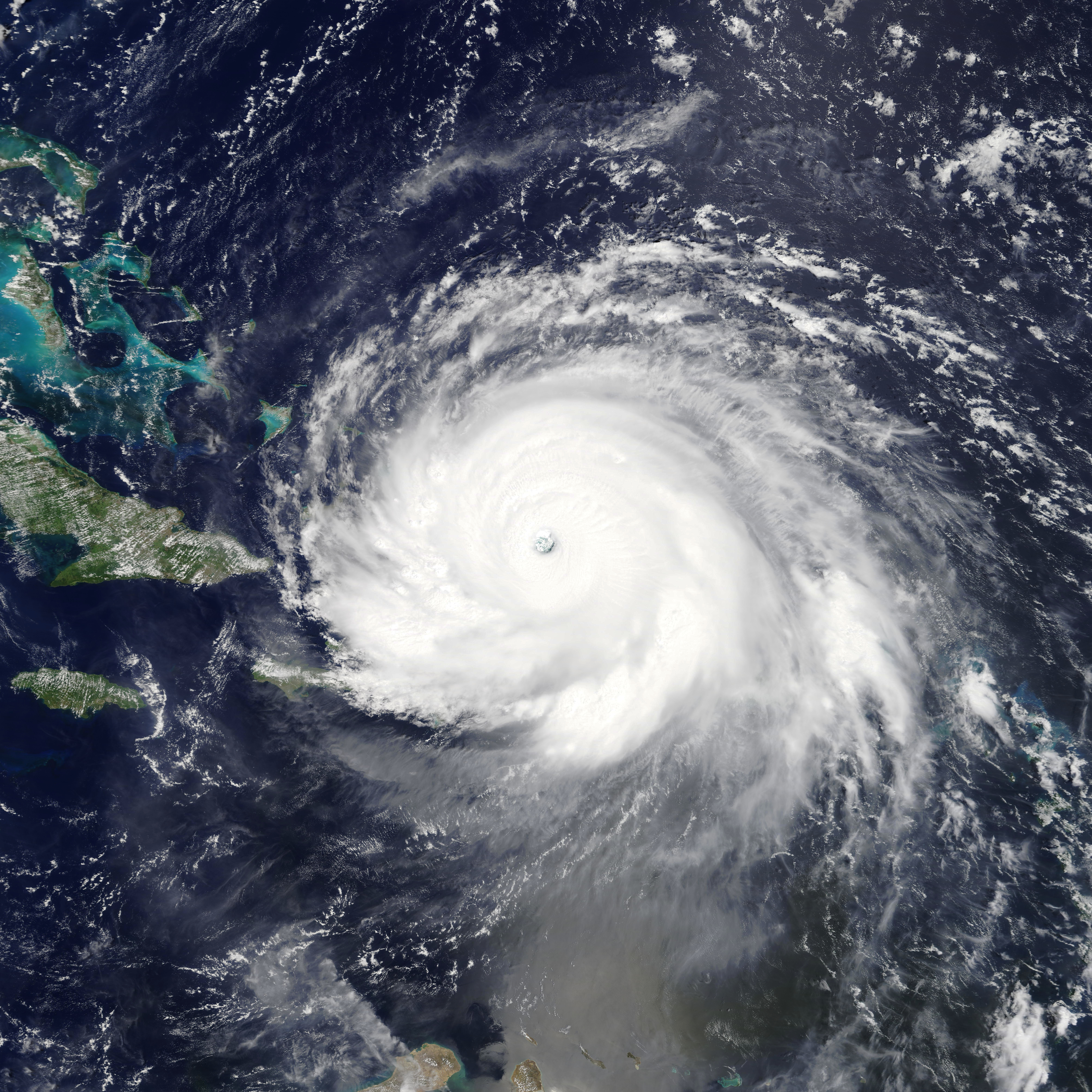 Hurricane Irma over Hispanola on September 7.